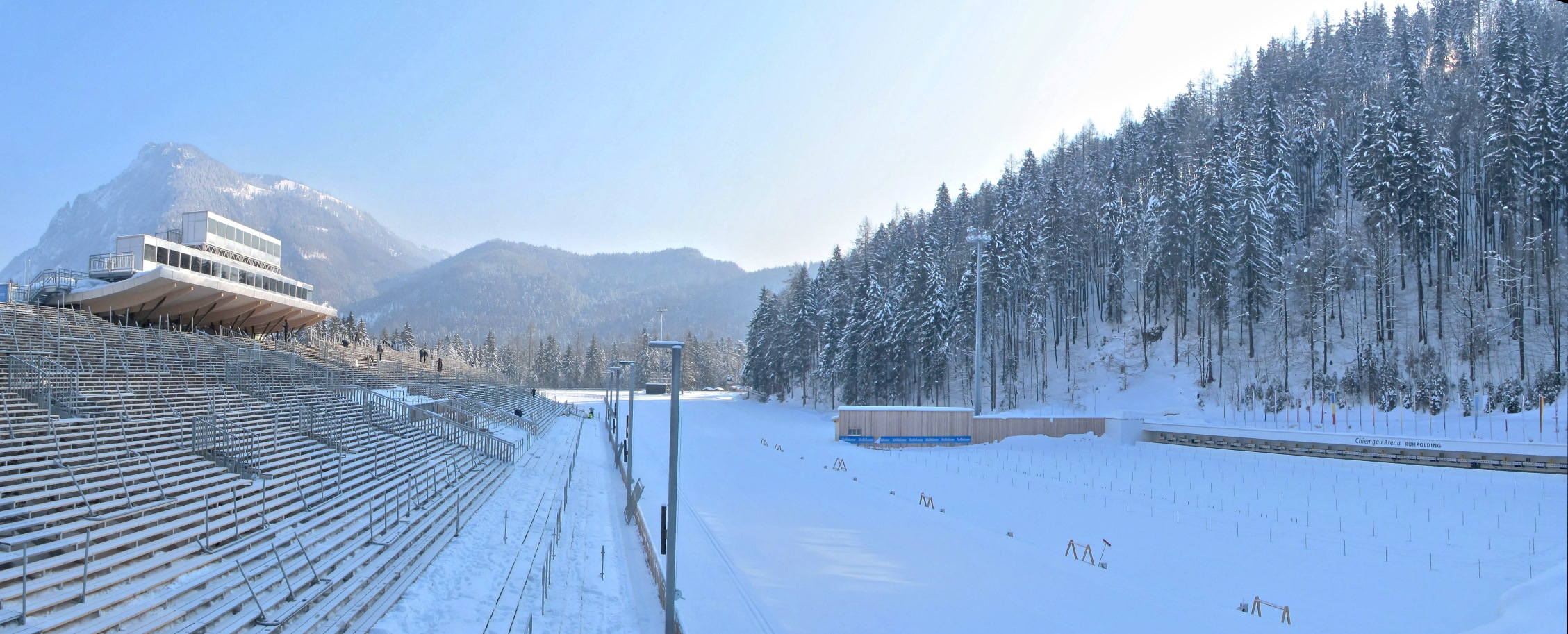 Ruhpolding, Stadium for Biathlon "Chiemgau Arena"